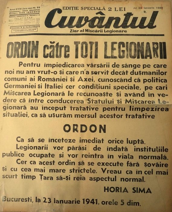 Ordin Horia Sima în Cuvântul din 23 ianuarie 1941